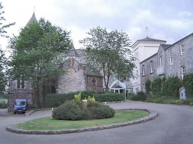 St Augustine's Priory - AbbotskerswellThis used to be a priory for nuns of the Canonesses Regular of the Lateran. In 1983 the buildings were sold and we now have a set of extensive houses.